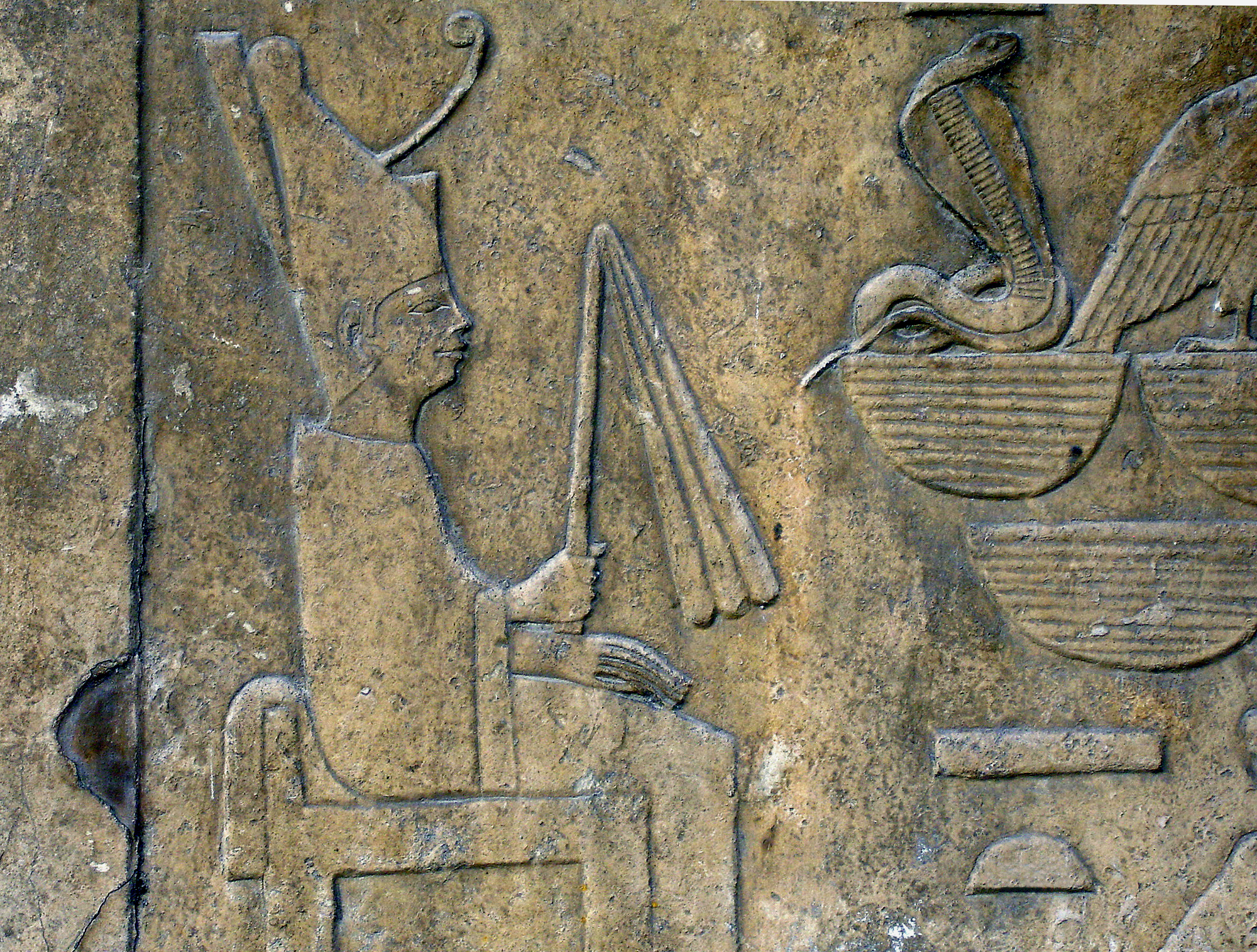 Detail of King Snefru from his funerary temple of Dahshur now on the main facade of the Egyptian Museum, Cairo Museum The king is seated on a throne and wears the white robe of royal of the Hed-Seb.